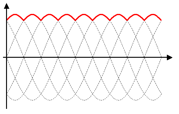 Output voltage waveform of a three-phase full-wave rectifier.